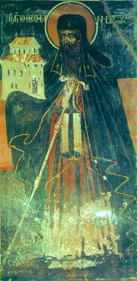 Theophanes of Athos 1744